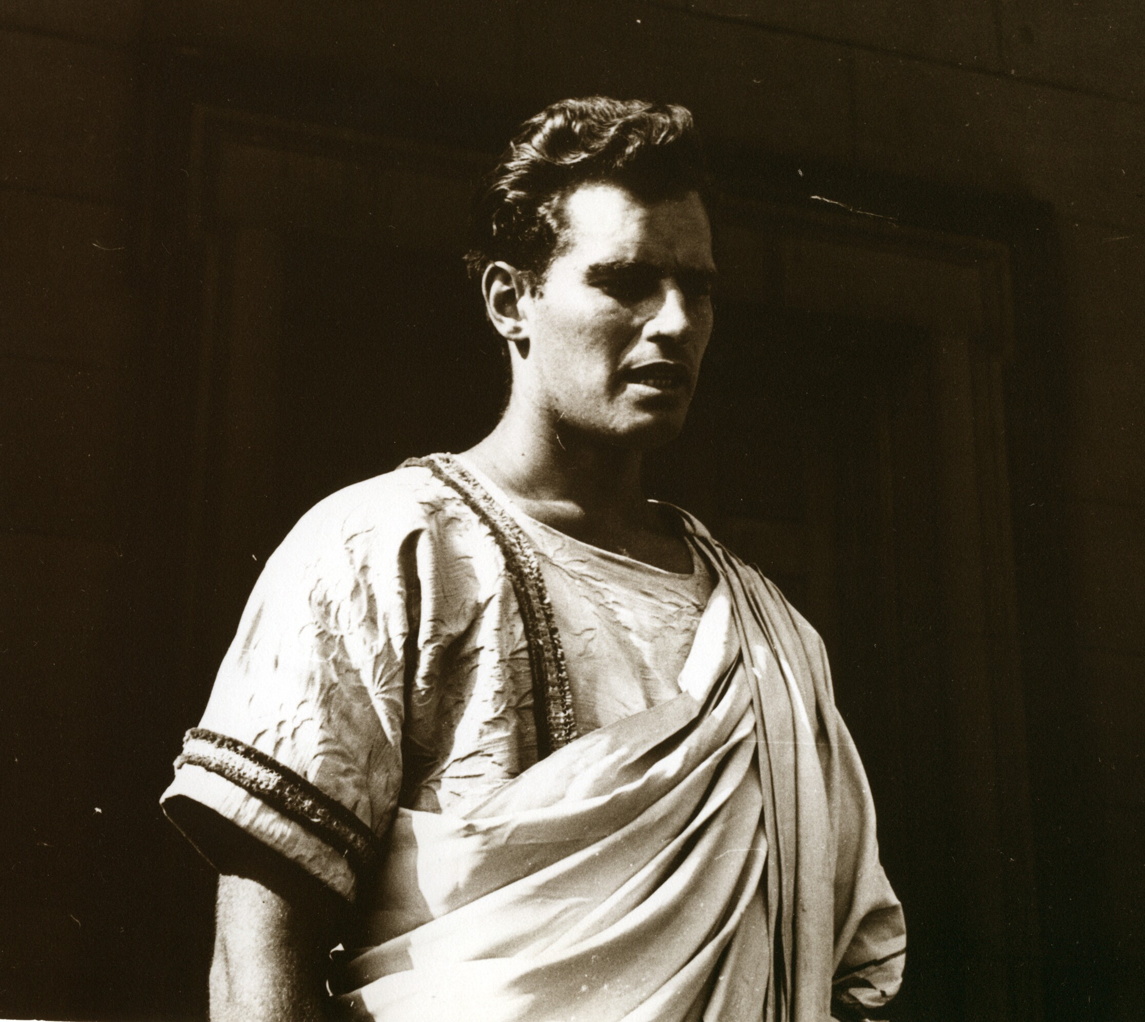 Taken during the production of the play Julius Caesar, 1950. The location is Chicago's Museum of Science & Industry. Other images by this contributor - User:Sba2 Use this image as needed, but for uses other than personal, please credit as "Photo by Chalmers Butterfield".